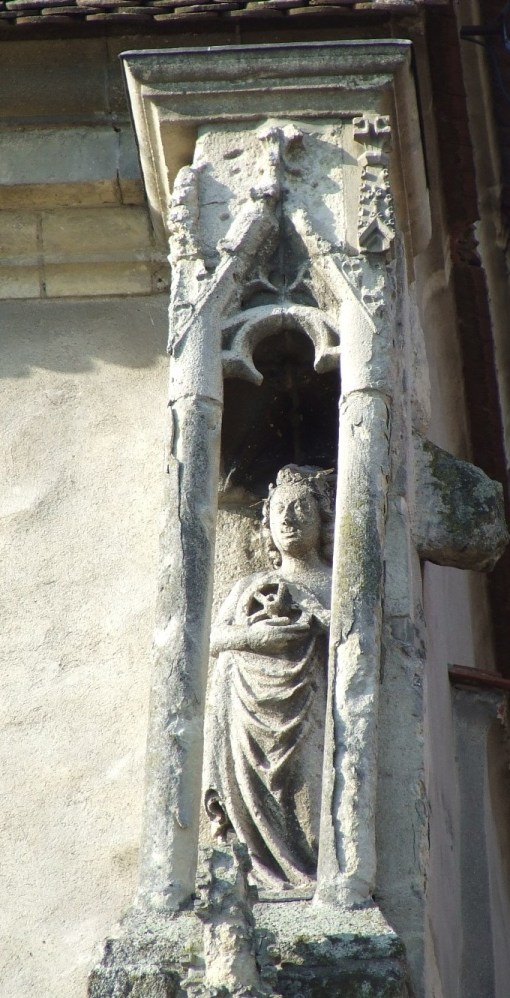 View from Sebeş, Alba County Romania 01